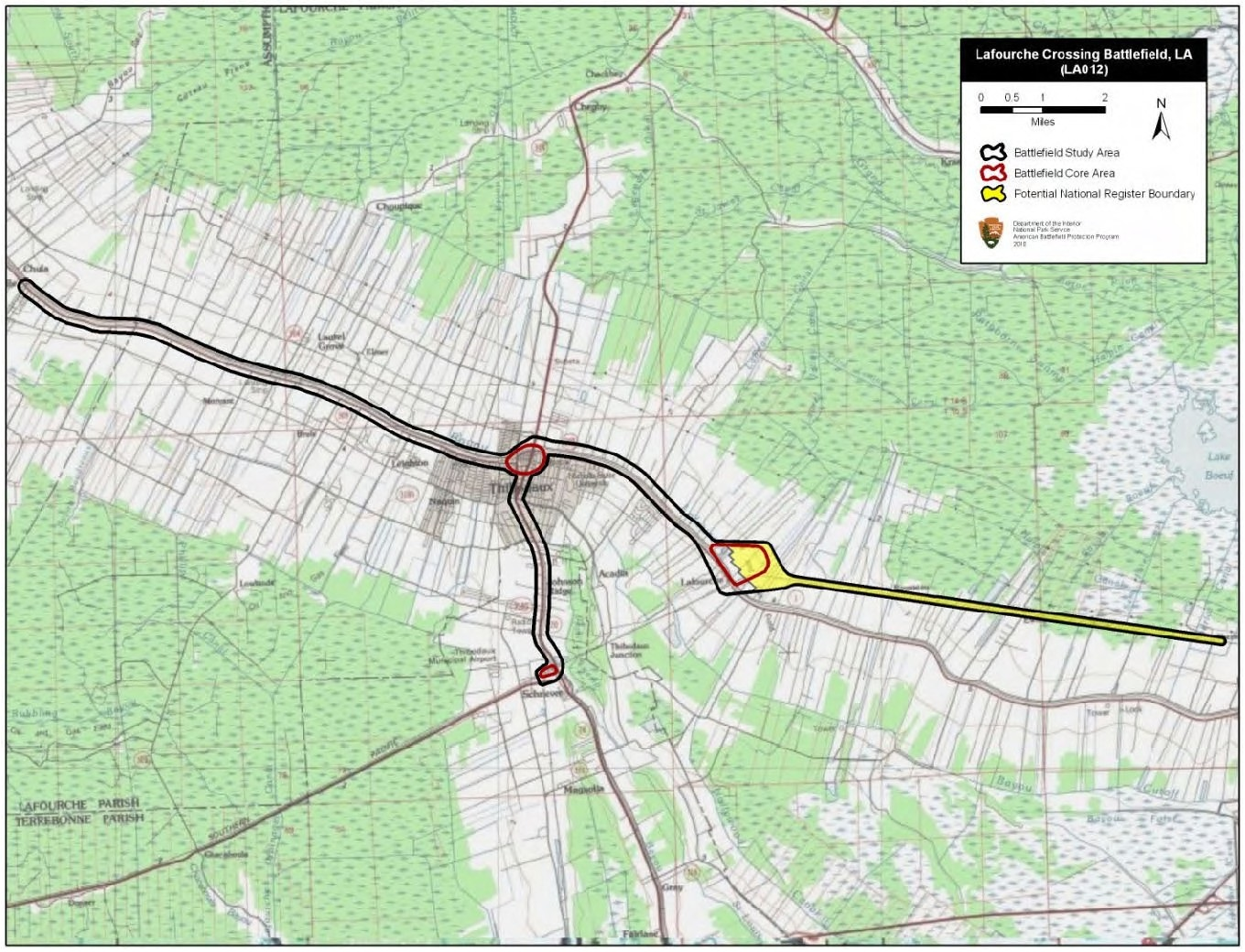 Map of battlefield core and study areas. The revised Study Area includes the Confederate approach route into Thibodaux - a rapid movement made with the intention of destroying the Federal garrison there - and the route over which the Federals pursued the retreating Confederates to the south. The ABPP mapped new Core Areas in Thibodaux and Schriever to represent the opening skirmishes on June 20 and fighting along the Confederate route of retreat on June 21, respectively.